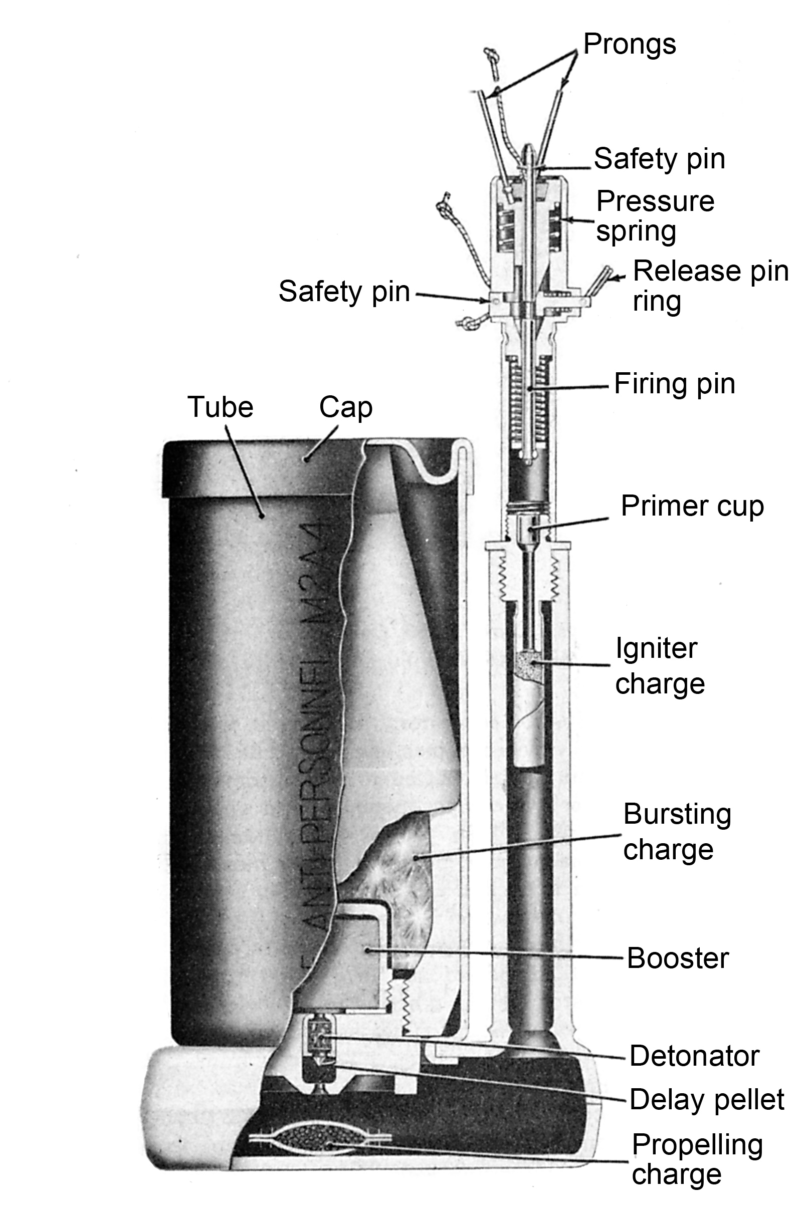 A United States M2A4 anti-personnel landmine, with a M6A1 fuze.